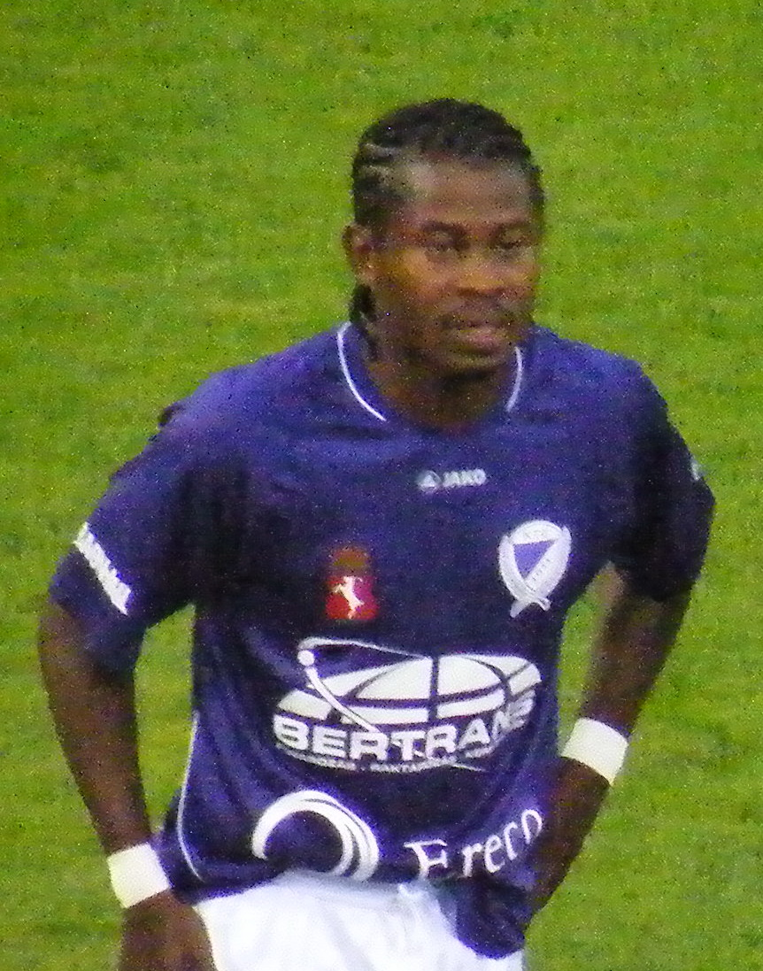 Foxi Kéthévoama Central African football player